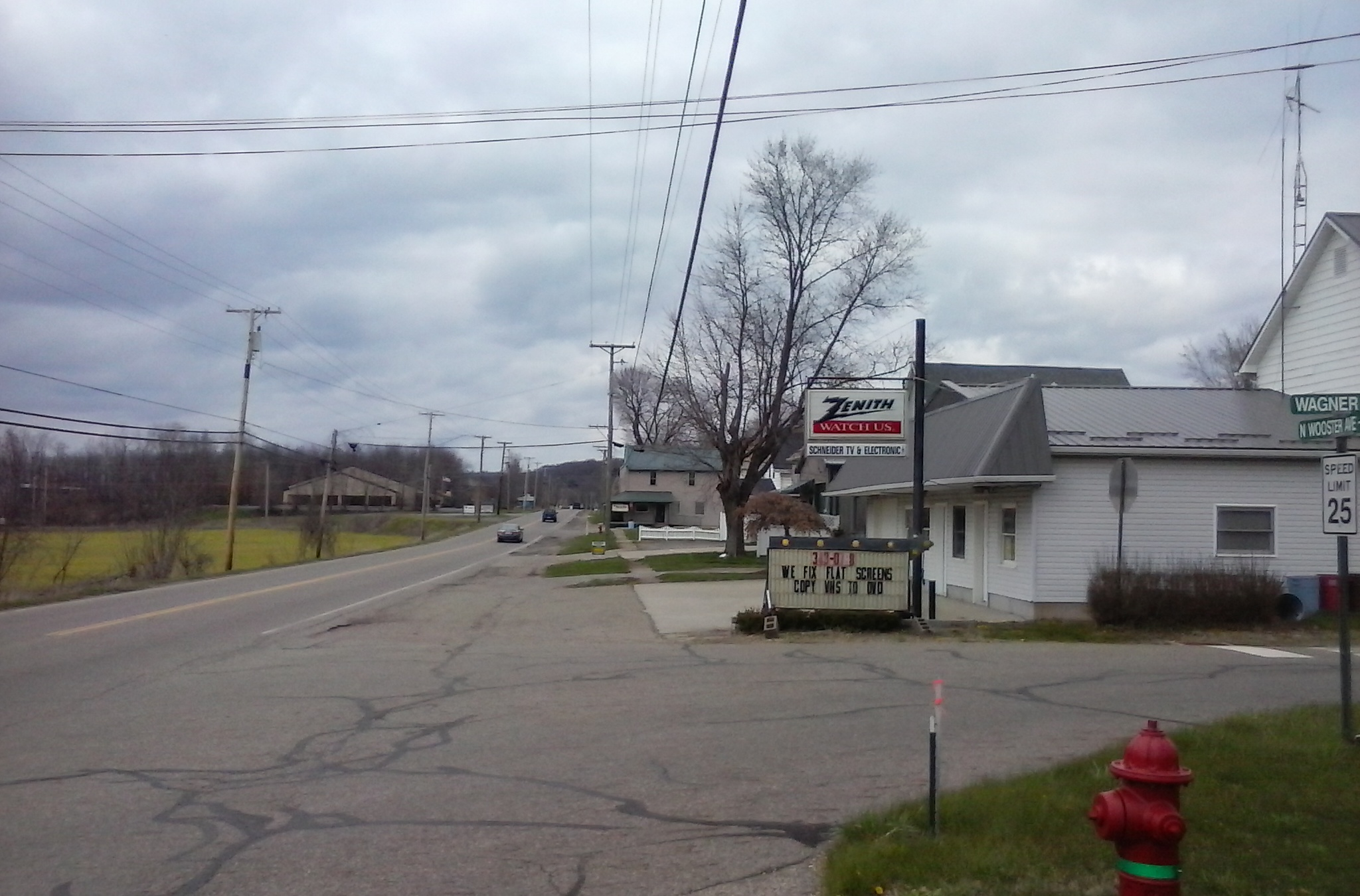 Street scene in Parral, Ohio